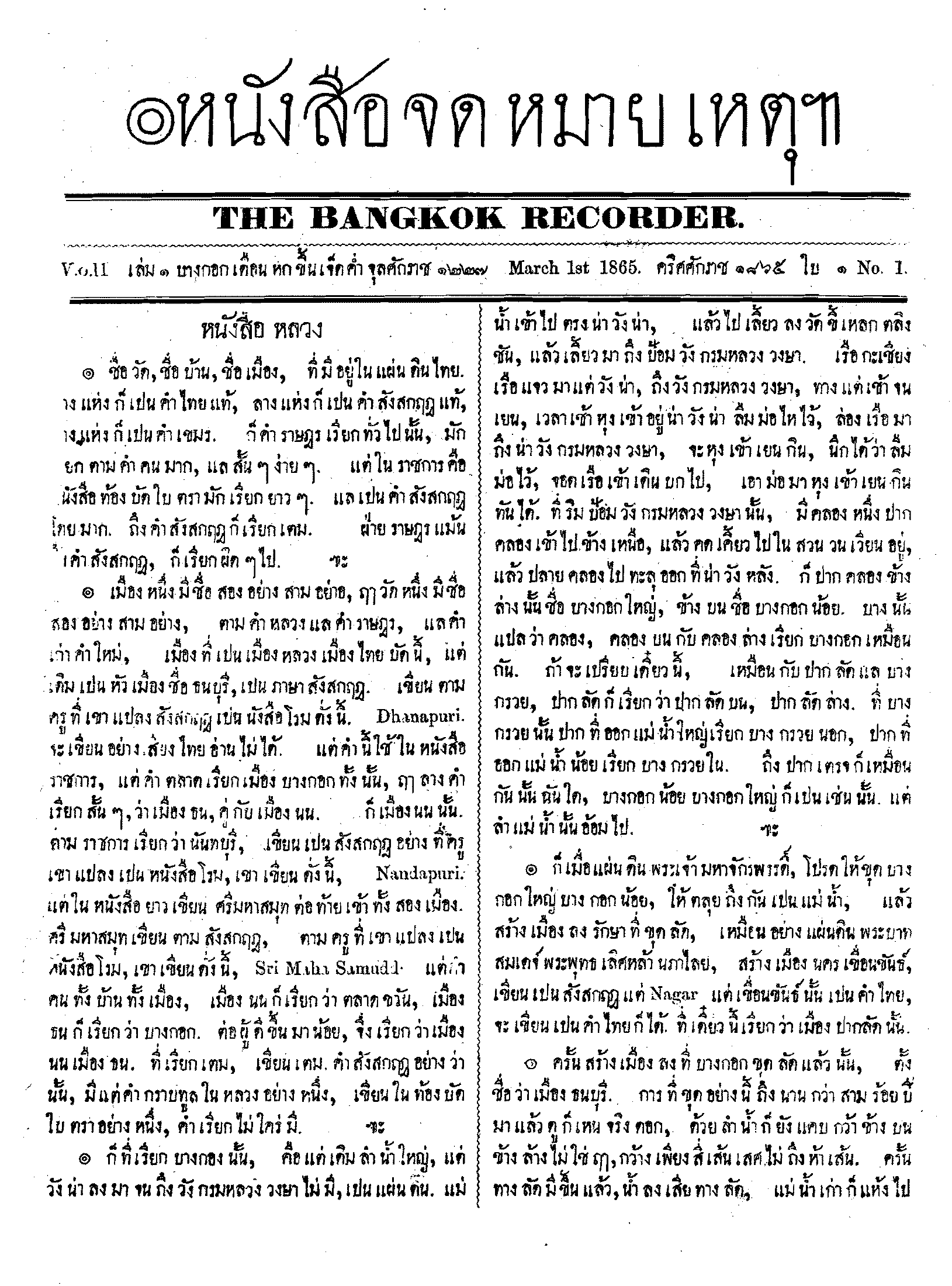 The front page of The Bangkok Recorder (Thai: หนังสือจดหมายเหตุ), Thailand's first newspaper, from March 1, 1865.